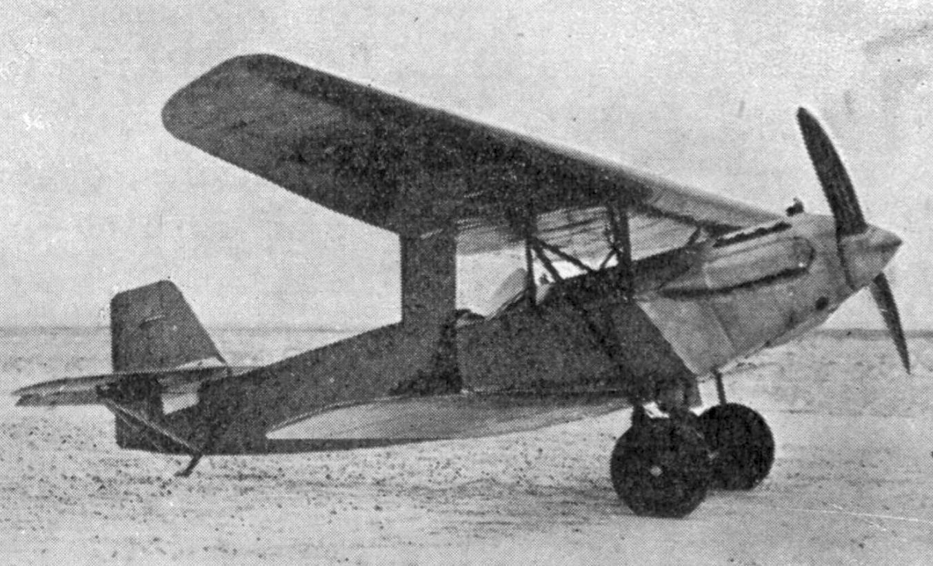 Memel A.F.G.1 photo from L'Aéronautique July,1926